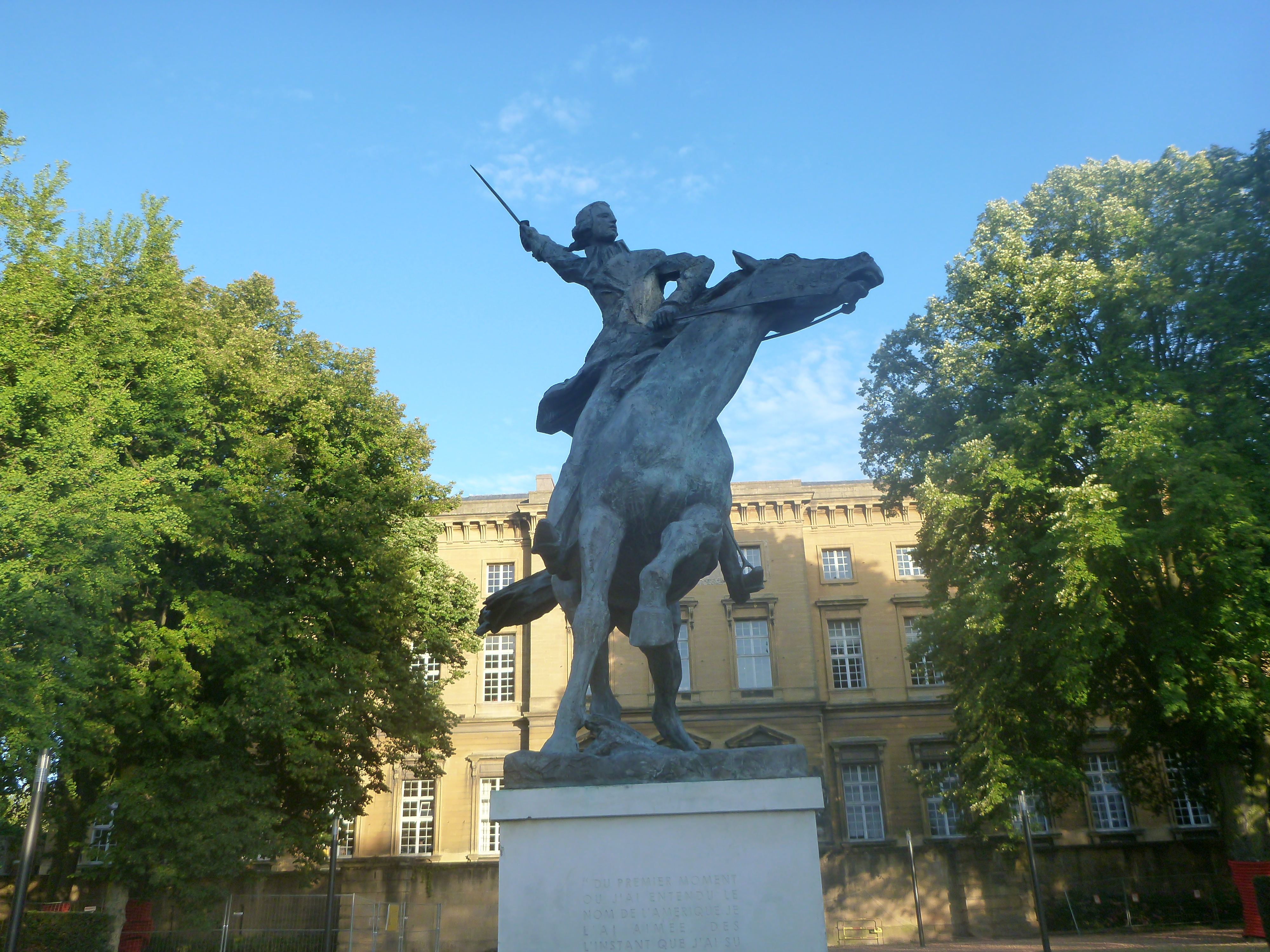 This is a statue of the Marquis de La Fayette, in Metz, France.